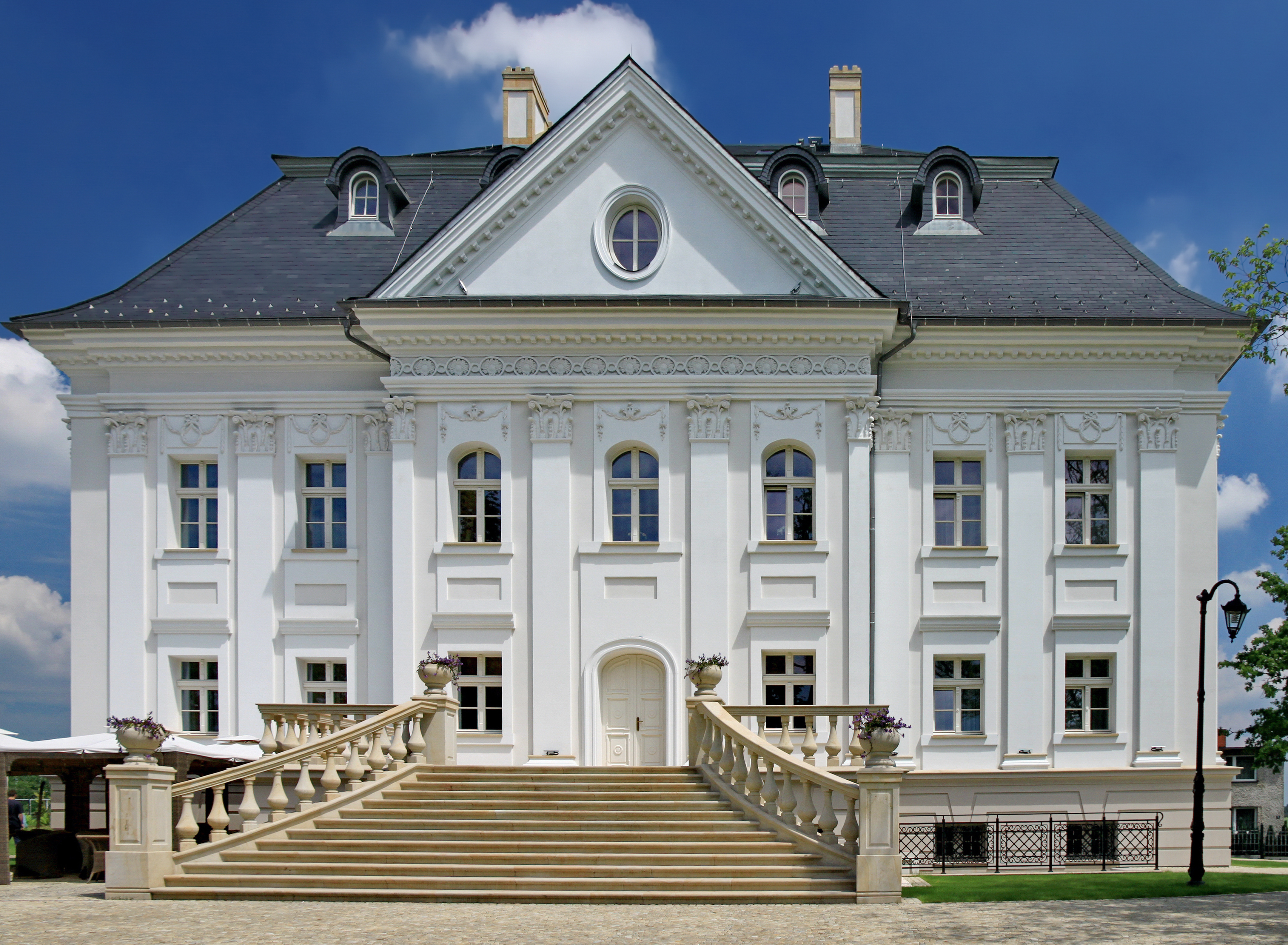 Jastrzębie-Zdrój, palace, 2nd half of 18th century